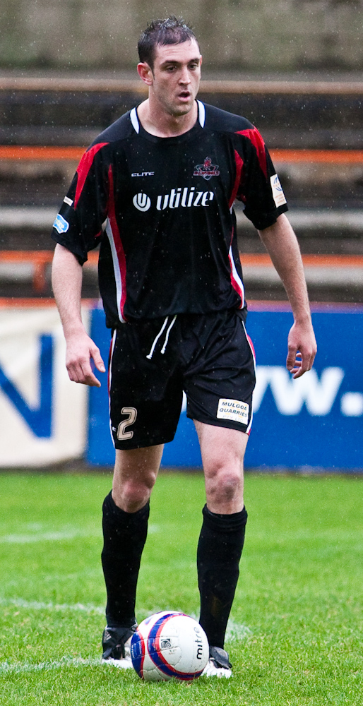 Tyler Simpson playing for Blacktown Demons in the 2009 NSW Premier League.